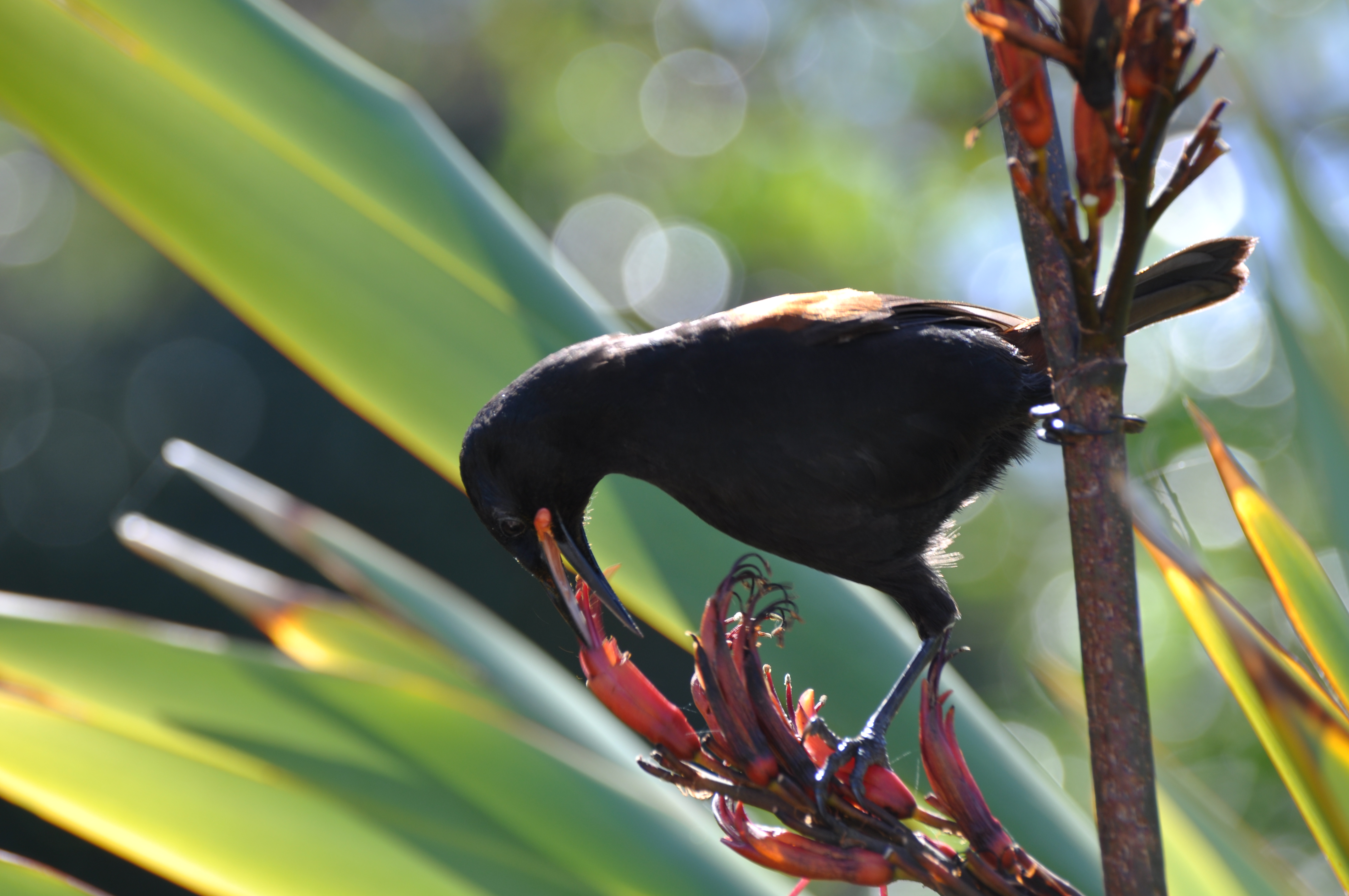 Tieke (North Island Saddleback Philesturnus rufusater) on flax flower, Tiritiri Matangi, Auckland, New Zealand